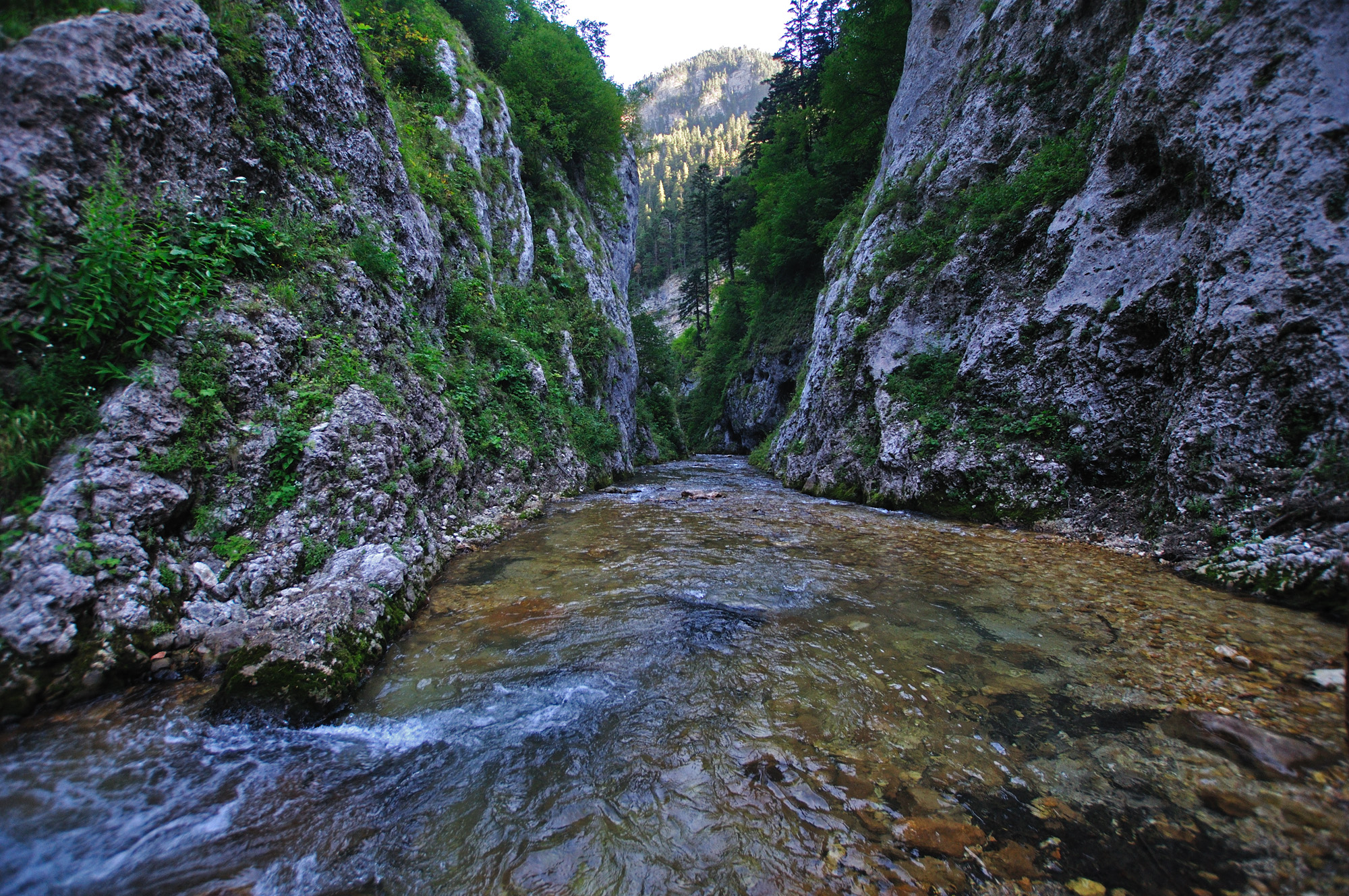 This image is related to the protected area of Russia number 0110015